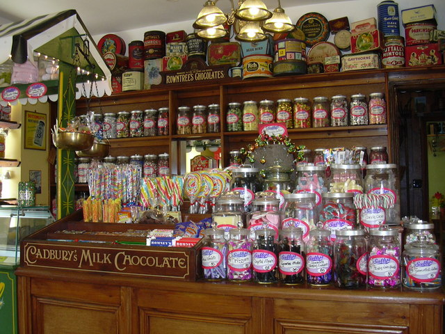 Interior of The Dalesman Tearooms